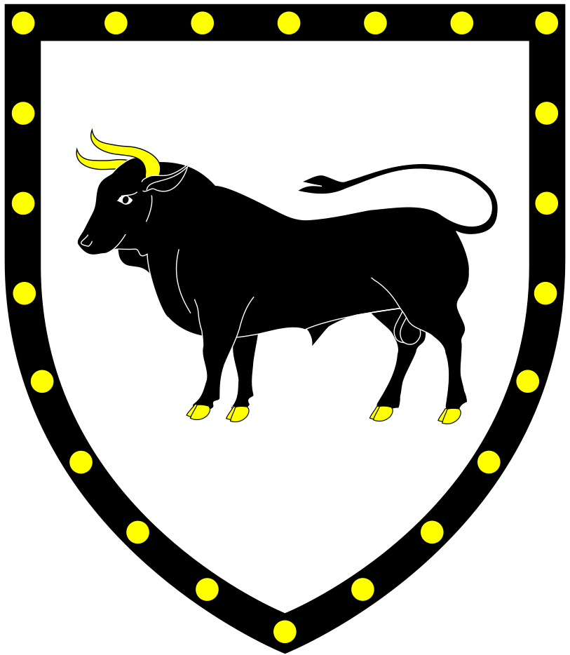 Arms of Cole of Slade in the parish of Cornwood; of Nethway in the parish of Brixham, both in Devon: Argent, a bull passant sable armed or a bordure of the second bezantée (Vivian, Lt.Col. J.L., (Ed.) The Visitations of the County of Devon: Comprising the Heralds' Visitations of 1531, 1564 & 1620, Exeter, 1895, p.213).